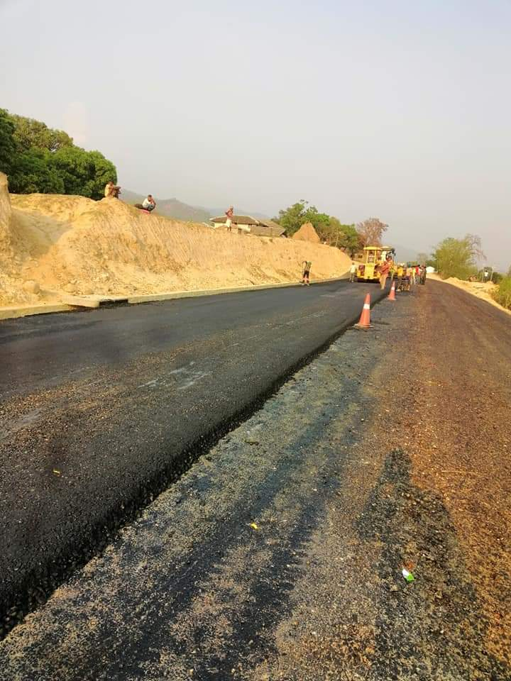 Construction of Madan Bhandari Highway at Ratanpur, Sindhuli